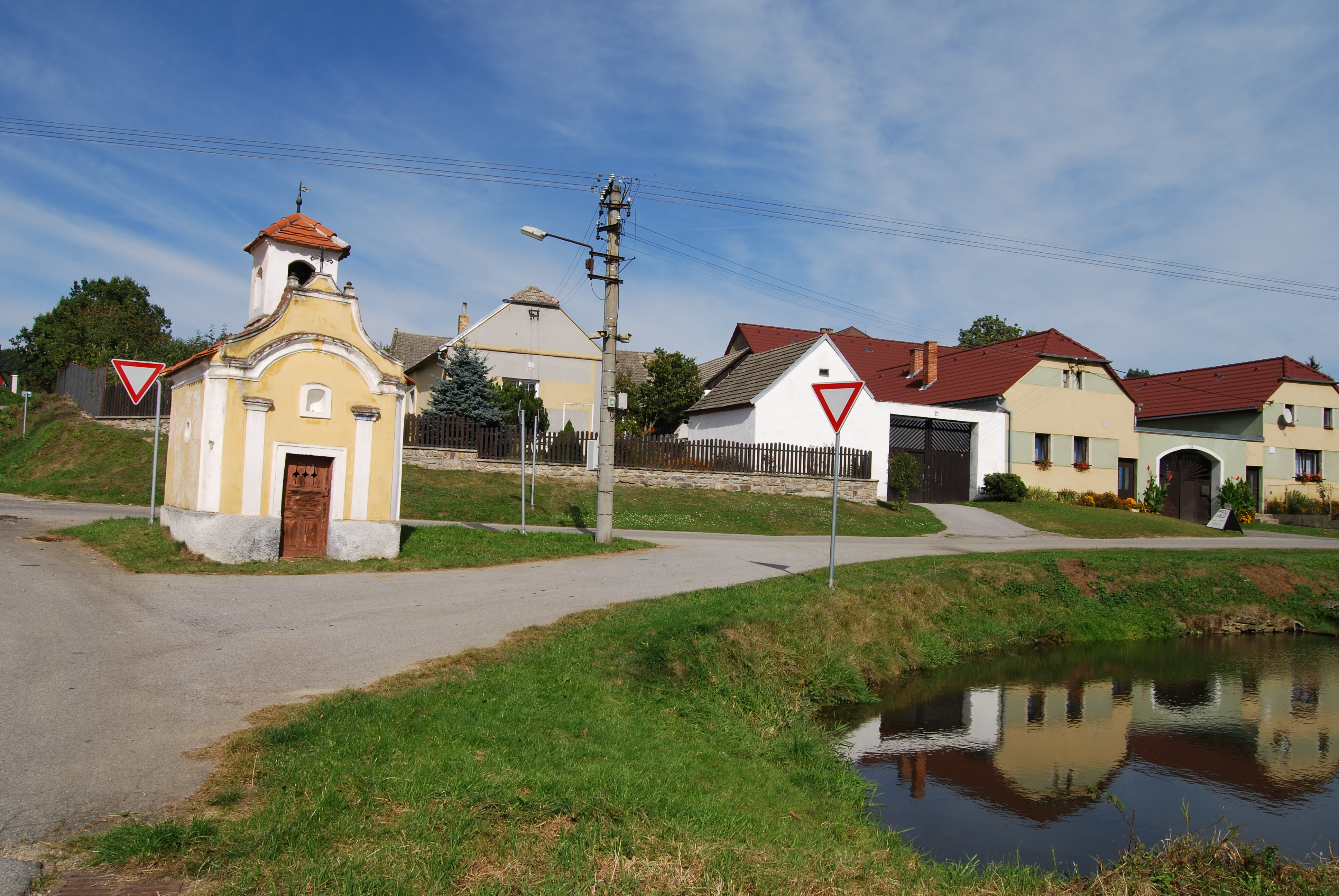 Třebanice, part of Lhenice town in Prachatice District, Czech Republic. Chapel